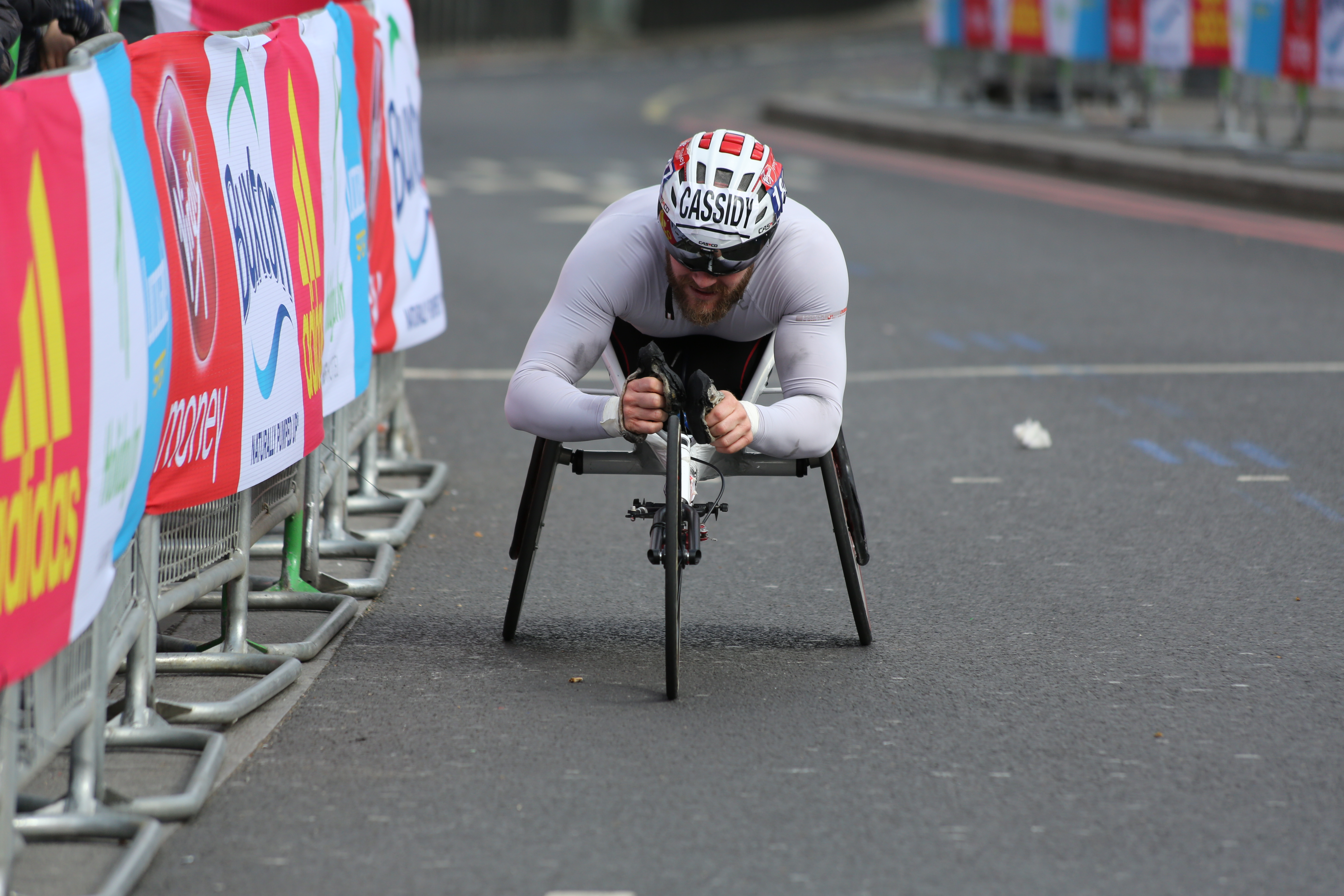 2017 London Marathon – World ParaAthletics Marathon World Cup (Wheelchair) – Josh Cassidy